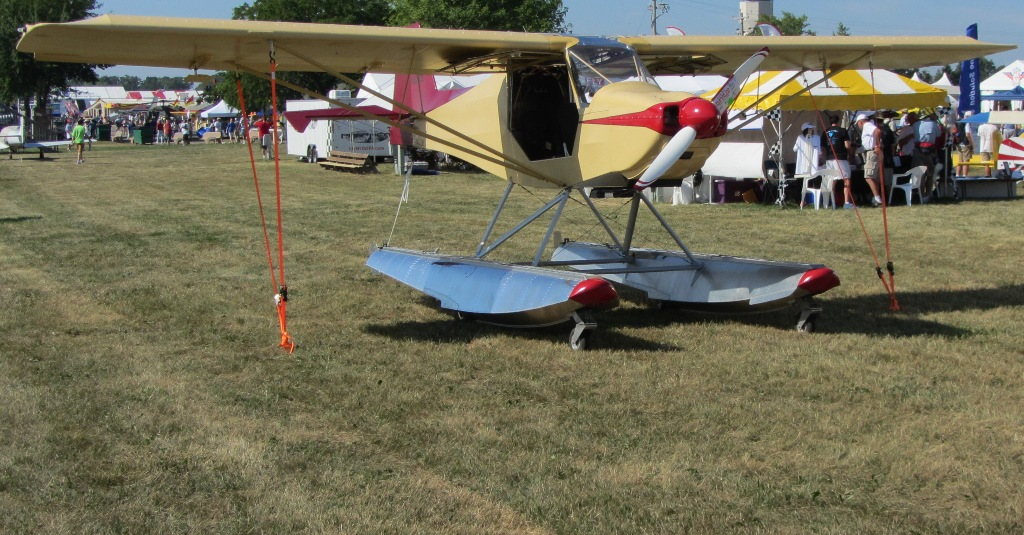 Rans S-7